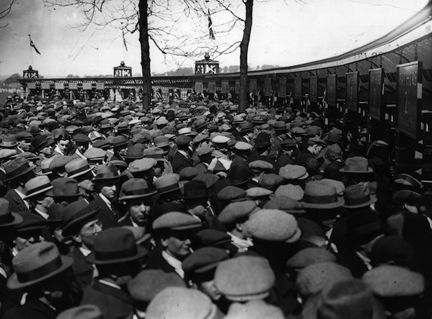 28th April 1923: Crowds at the turnstiles before the FA Cup Final between West Ham United and Bolton Wanderers at Wembley Stadium. It was the first final to be held at the newly completed venue, with an estimated attendance of 200,000.